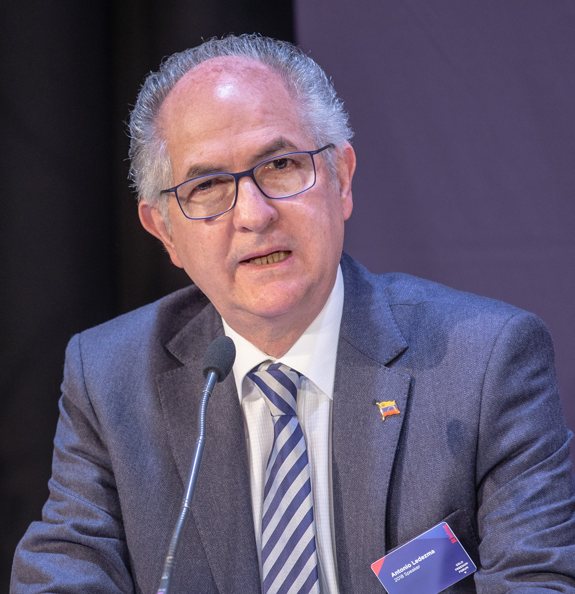 Antonio Ledezma at the press conference of the 2018 Oslo Freedom Forum.